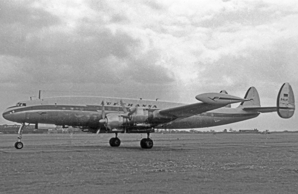 Lockheed L-1049G Super Constellation D-ALAP of Lufthansa operating a transatlantic schedule from Hamburg to Chicago through Manchester Airport in 1956